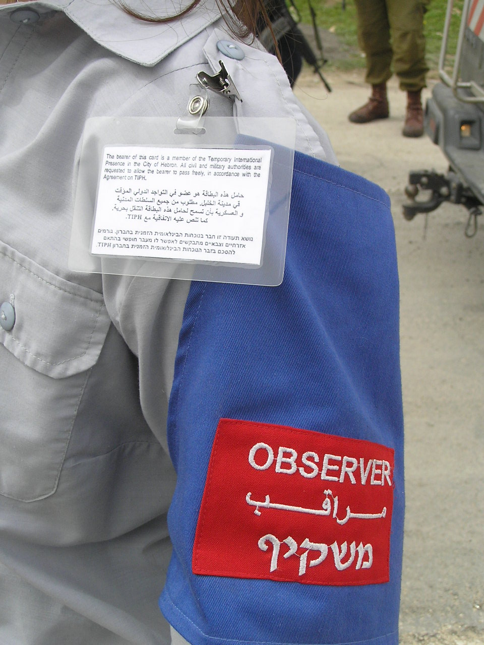 Hebron.